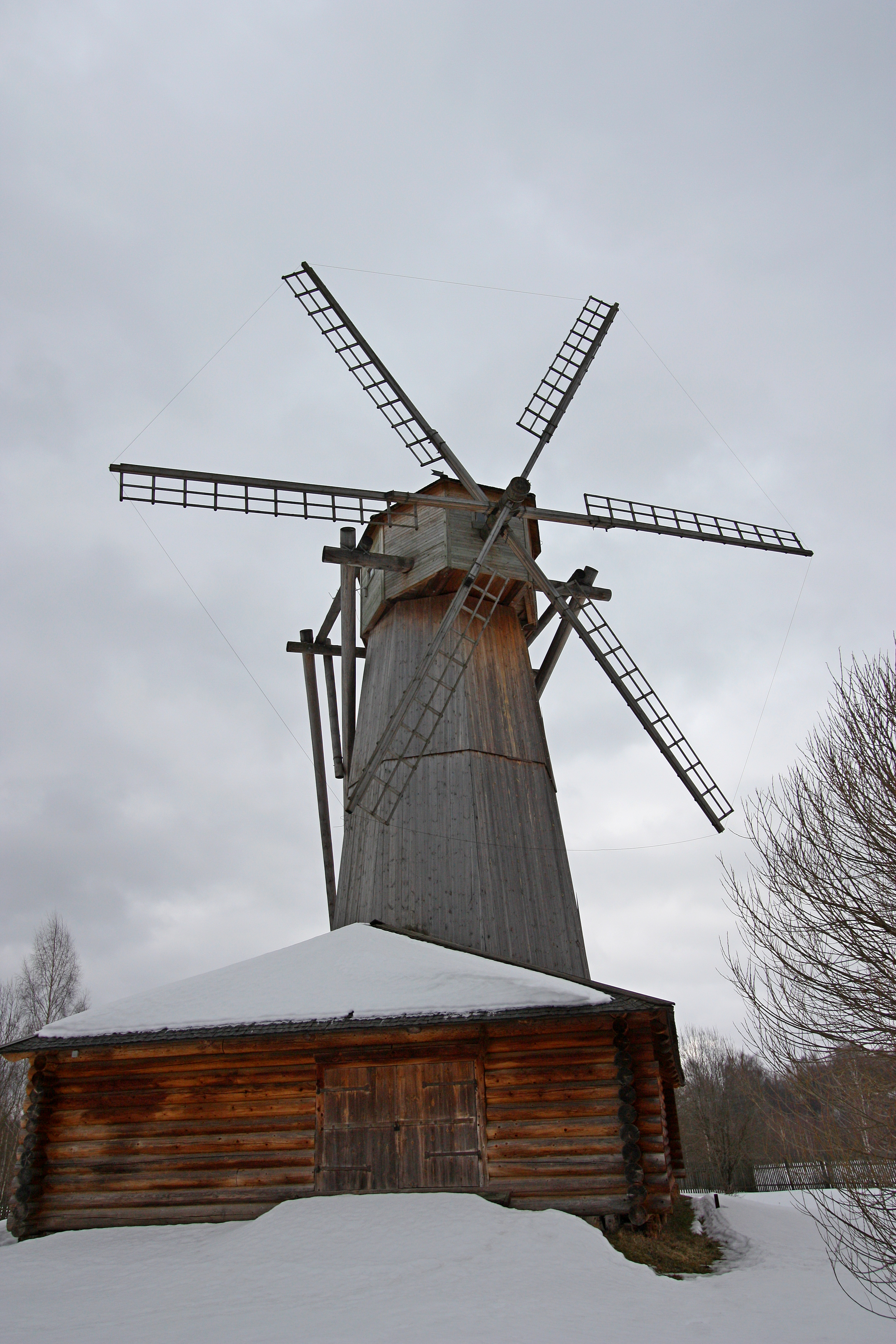 Windmill from the village Kocheleva of Kashinsky district of Tver region. Museum of wooden architecture on the river Istra at the new Jerusalem monastery. the city of Istra, city of Istra district, Moscow oblast, Russia.